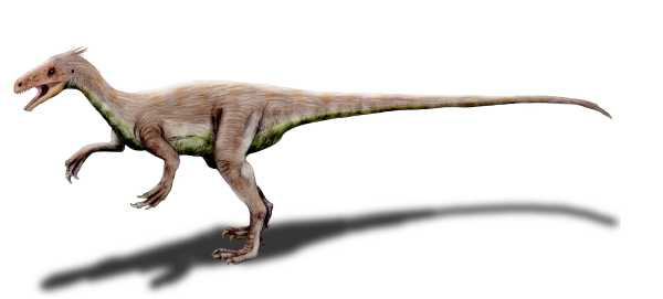 ornitholestes